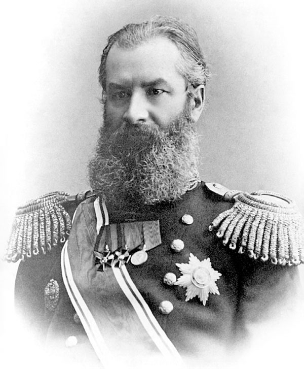 Alexei Krylov